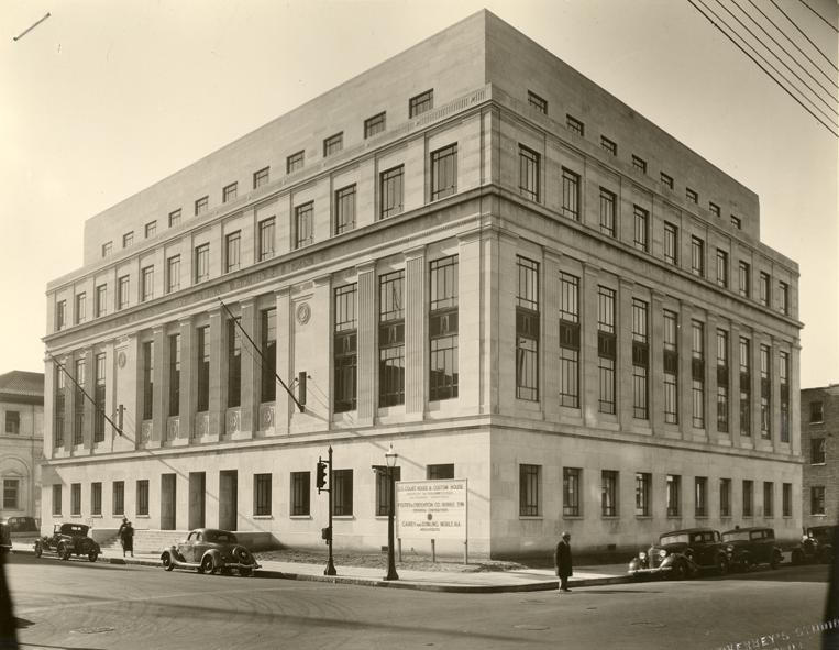 The John Archibald Campbell United States Courthouse in Mobile, Alabama, in 1935